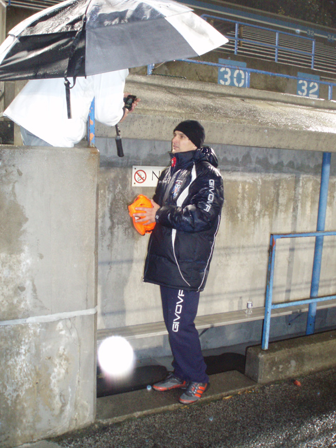 Serbian White Eagles head coach Uroš Stamatović gives an interview after the Serbian White Eagles progress to the 2012 Canadian Soccer League semifinal after a 1-0 win over SC Toronto, played in wondrous temperatures.